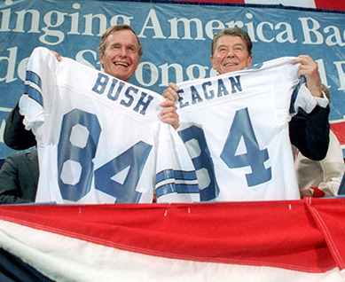 8/22/1984 President Reagan and Vice President Bush at a welcoming rally at the Loews Anatoly hotel in Dallas Texas